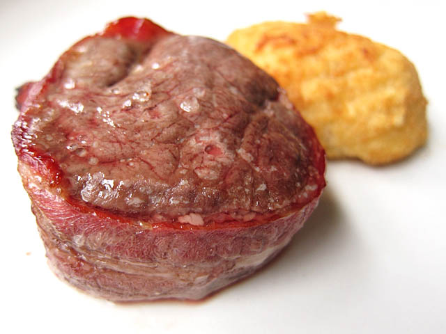 Omaha Steaks Bacon-Wrapped Filet Mignon A